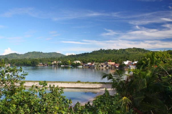 The fort is located in Kota Saparua